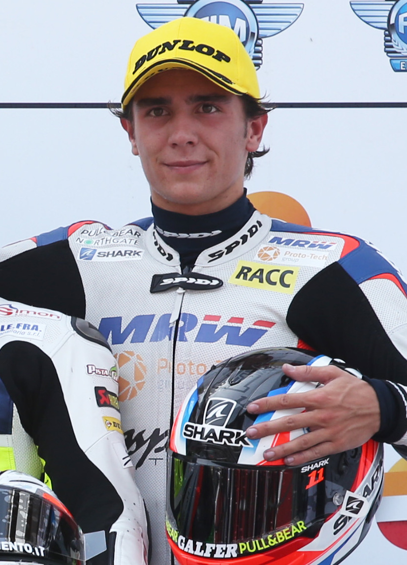 Albert Arenas on the podium of the 2016 CEV Moto3 Catalunya race 2.